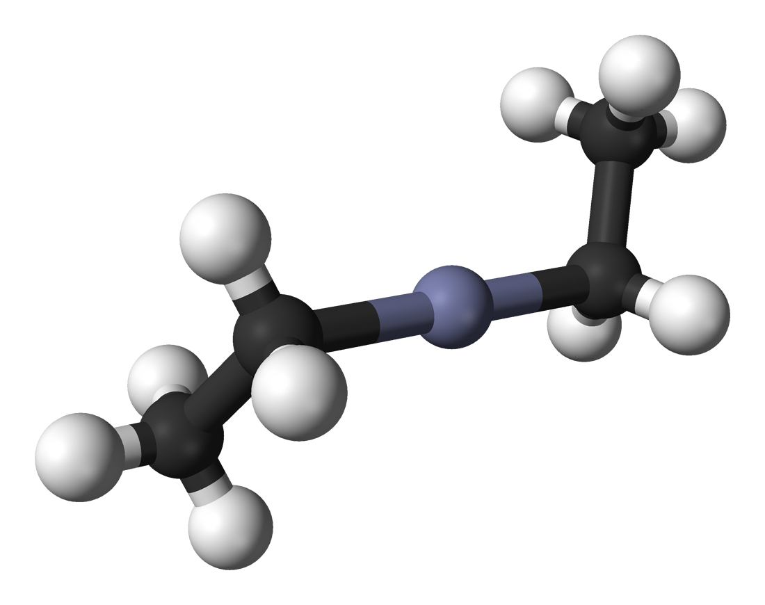 Ball-and-stick model of the diethylzinc molecule, Zn(C2H5)2